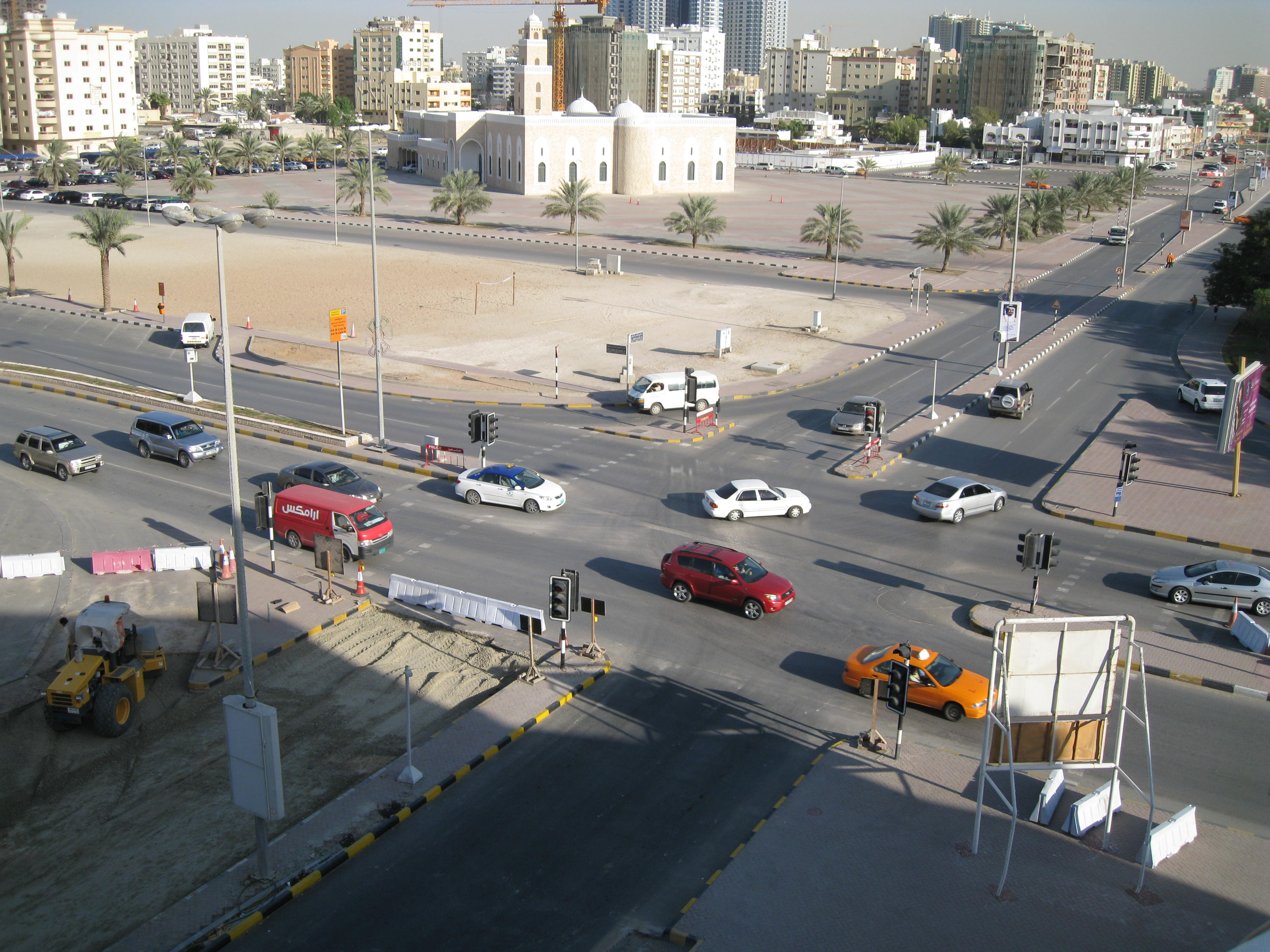 Sheikh Rashid Bin Hameed Street intersecting Khalid Bin Al Waleed Street and Al Zaher Palace Street, Ajman, United Arab Emirates. Shaikh Rashed Bin Hameed Mosque in background.